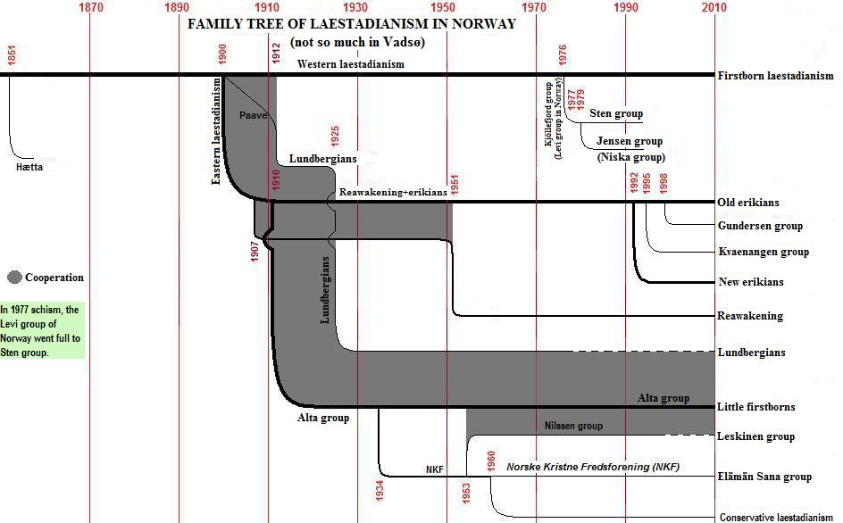 Family tree of laestadianism in Norway (not so much in Vadsø). Includes defunct groups also.